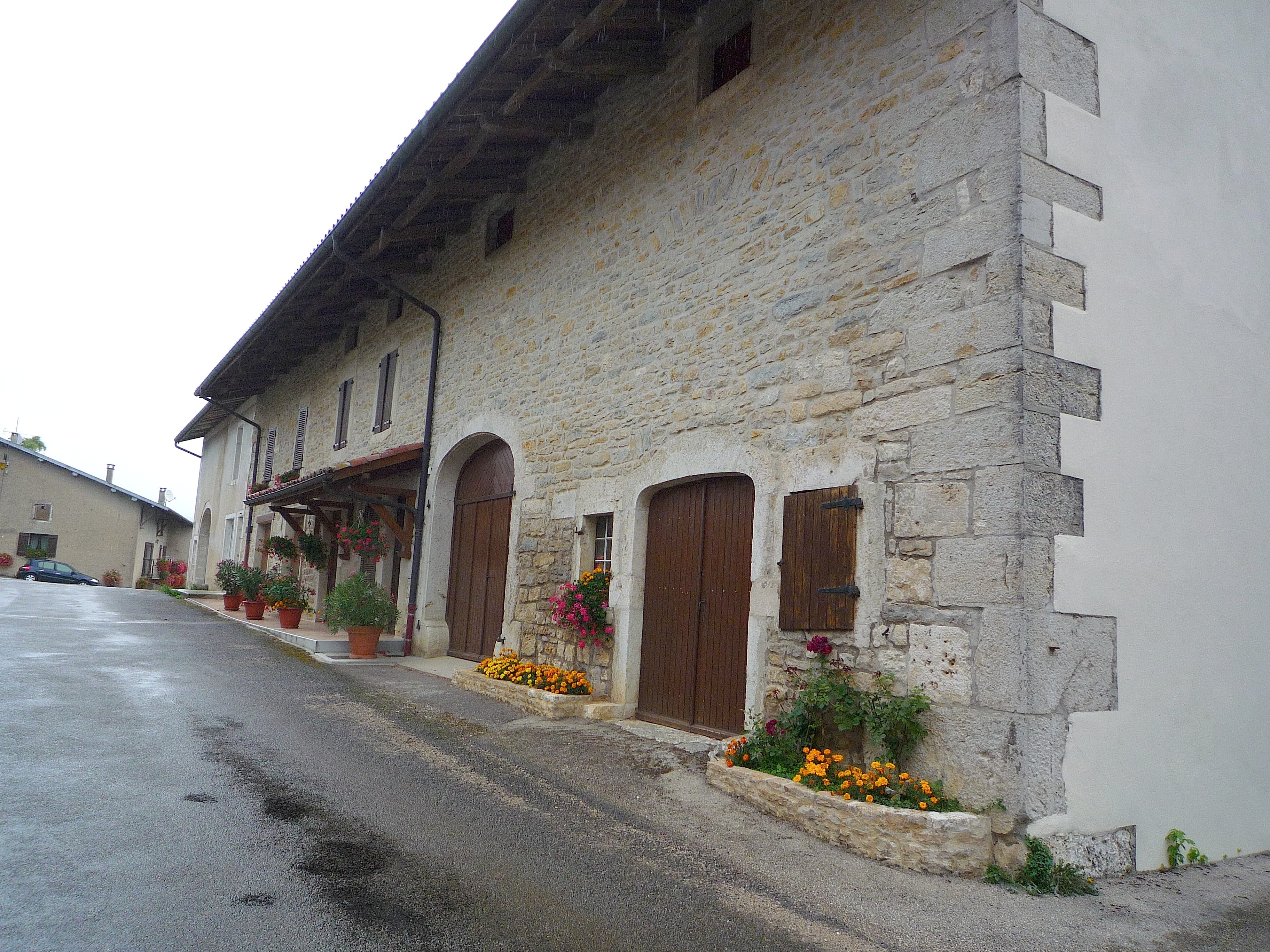 The village of Aromas, Jura. Aromas, Jura, France. September 2012.